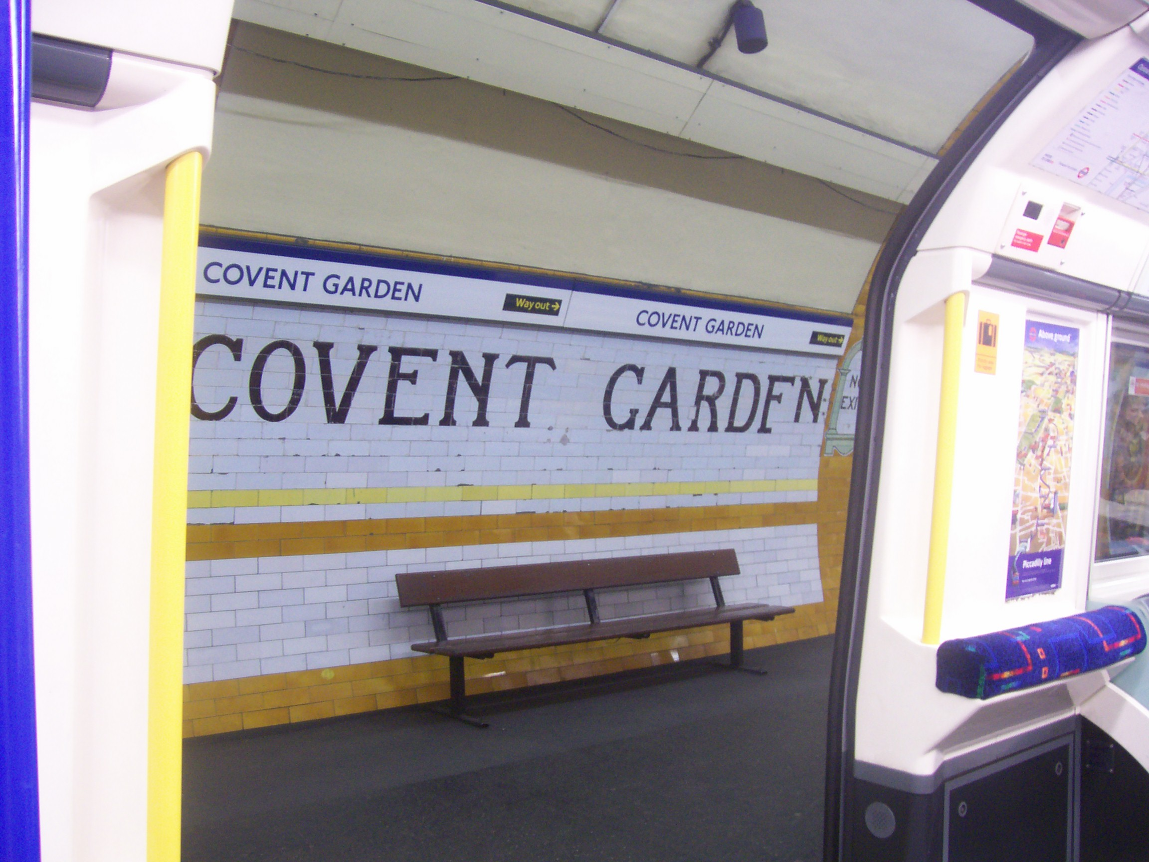 The platforms at Covent Garden tube station.